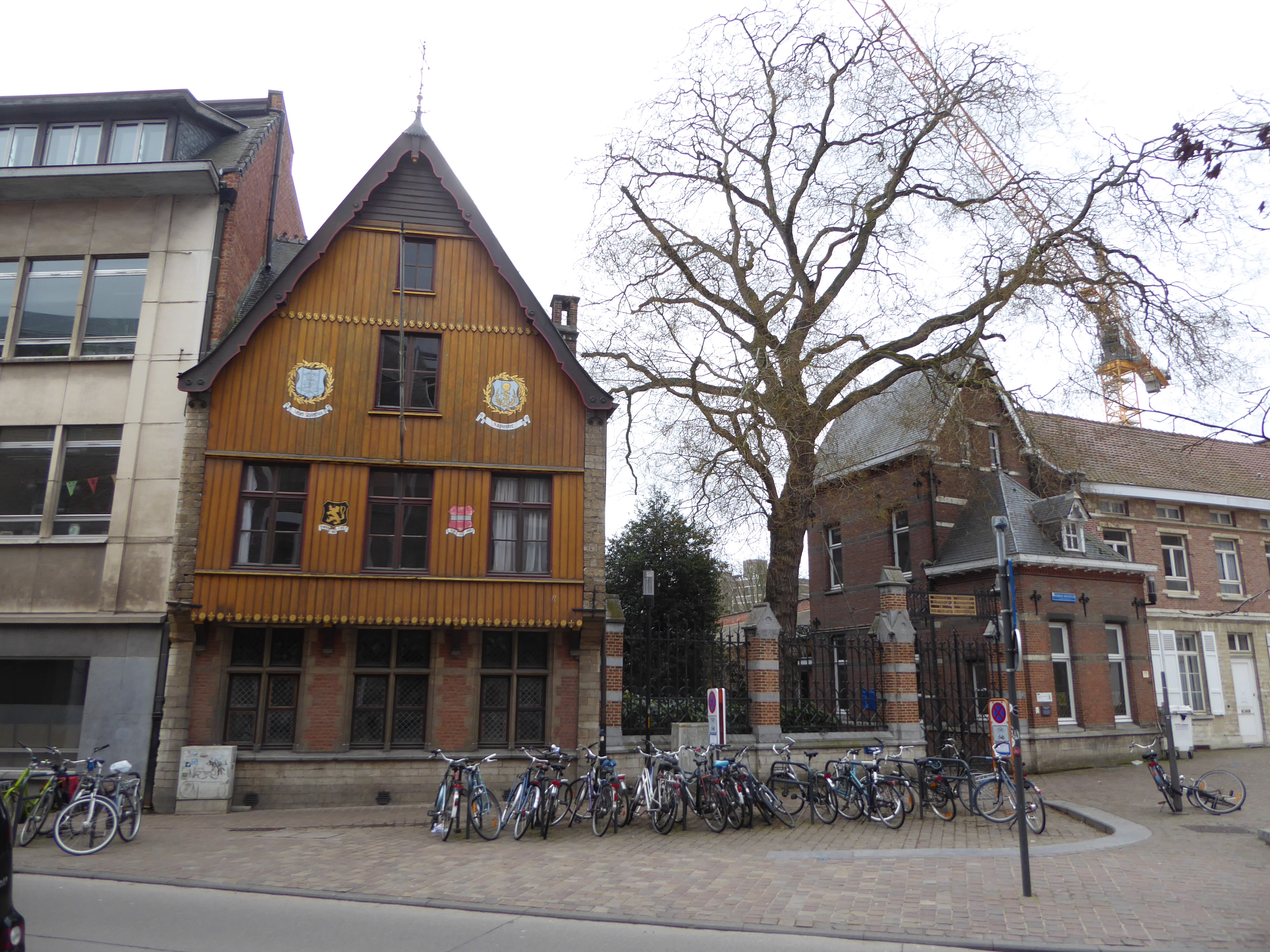 Institute of Philosophy, Kardinaal Mercierplain, Leuven